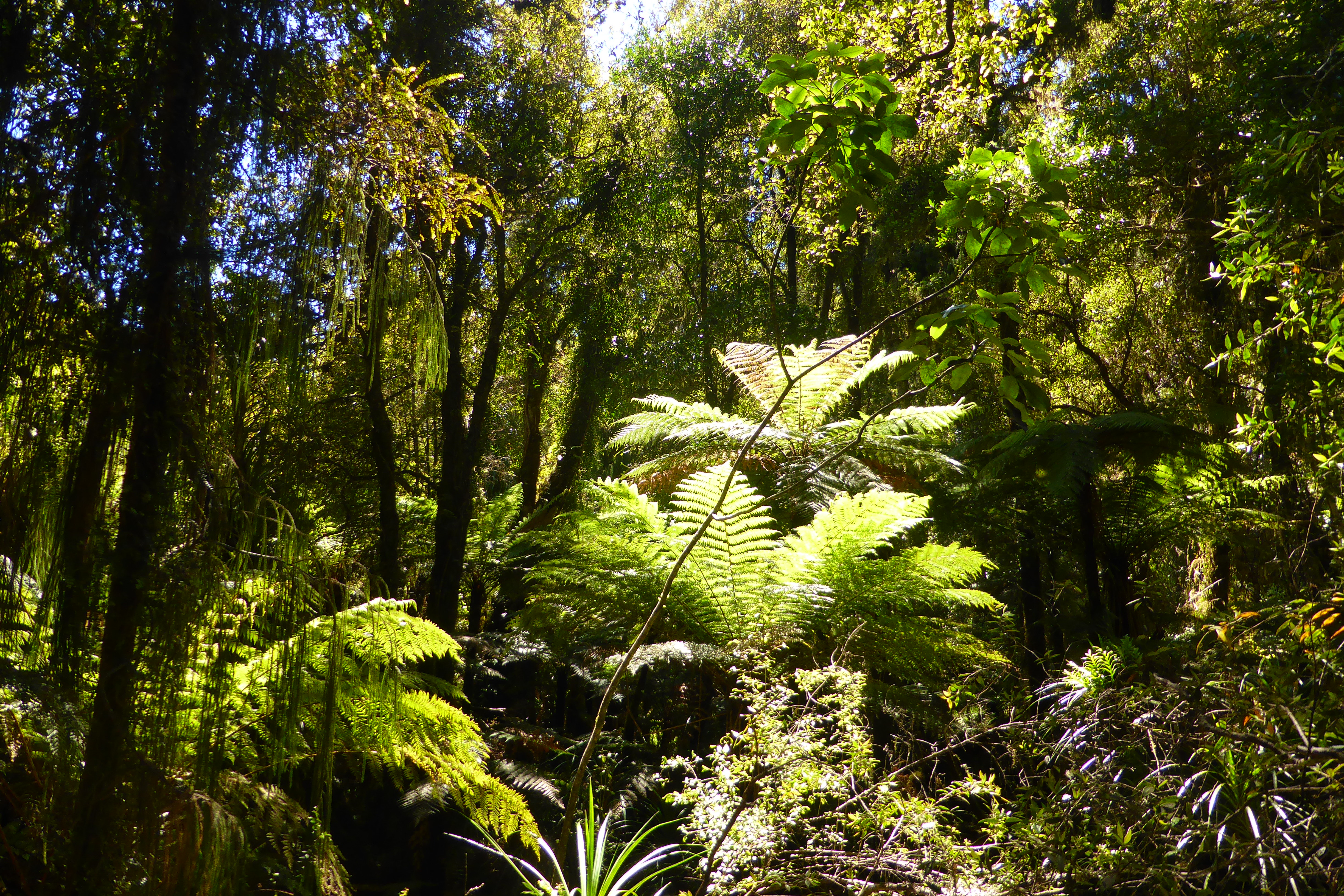 Rain forest near Monroe Beach